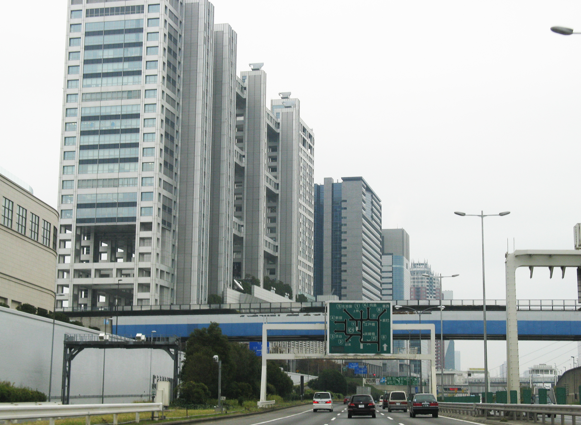 I took this photo.